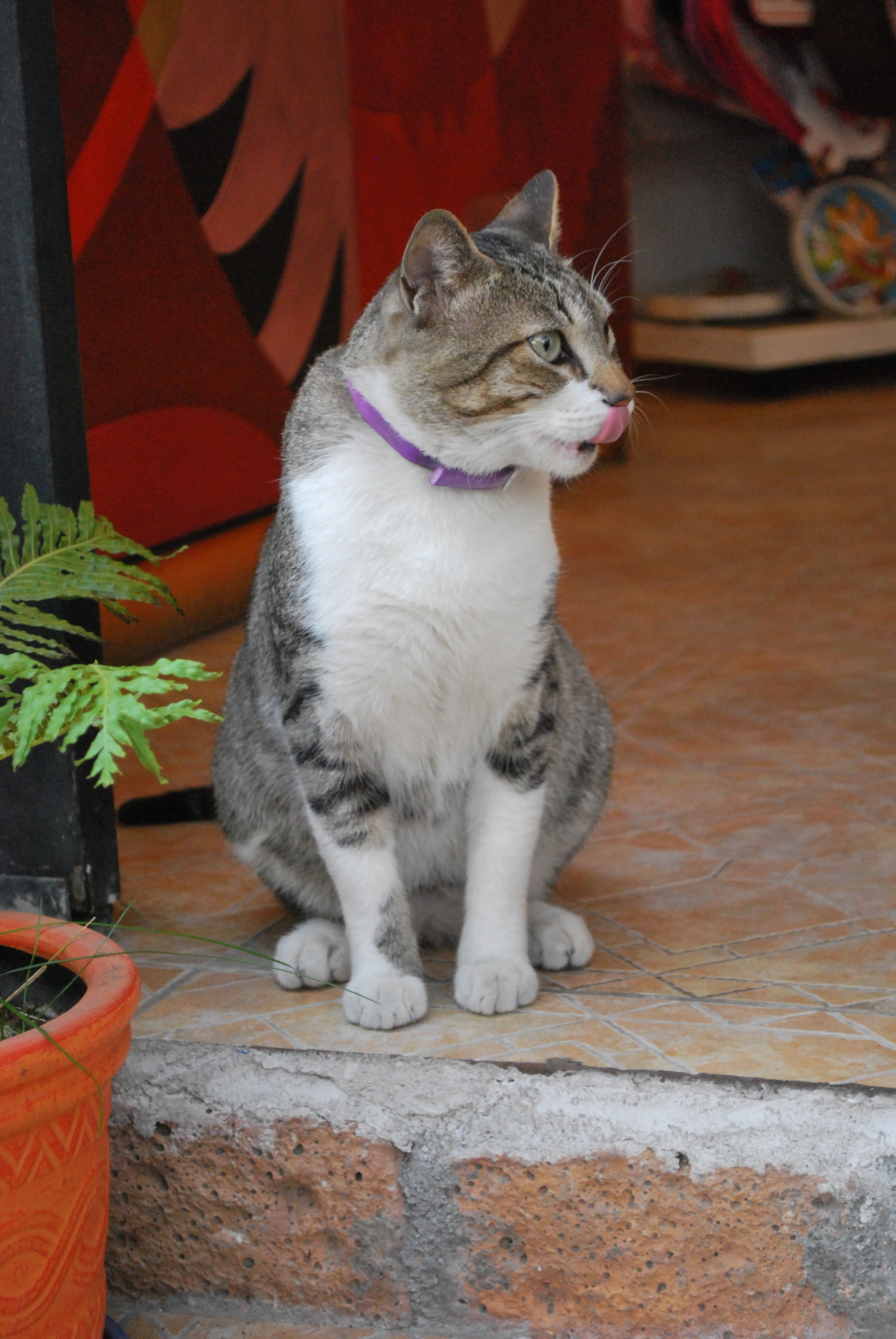 Fideo, the cat living at Galería Garros in Colonia Roma, Mexico City